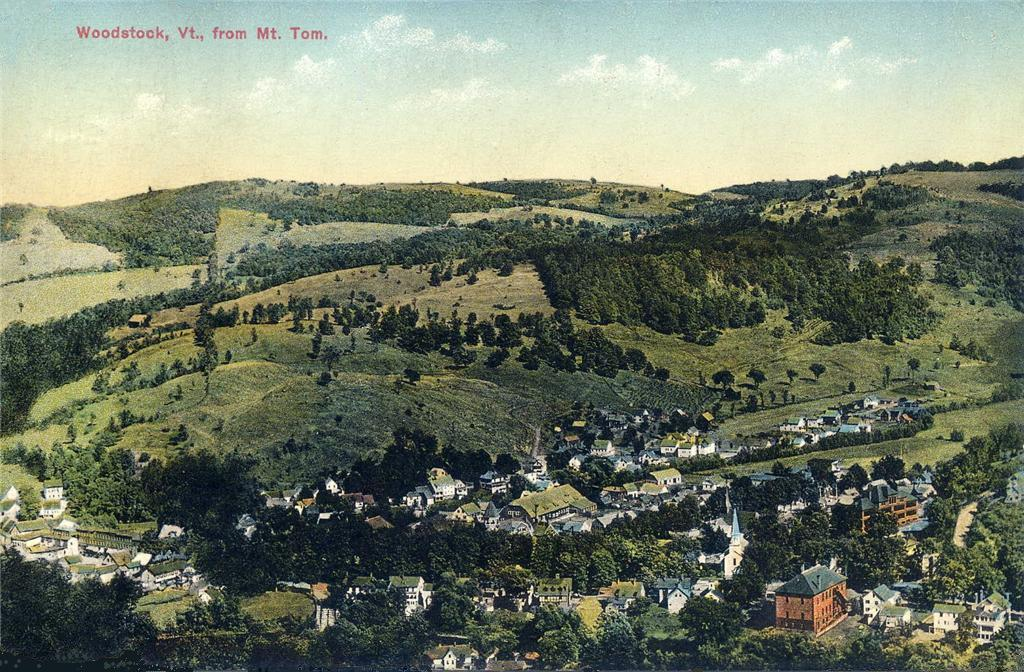 Bird's-eye view of Woodstock, Vermont from Mount Tom